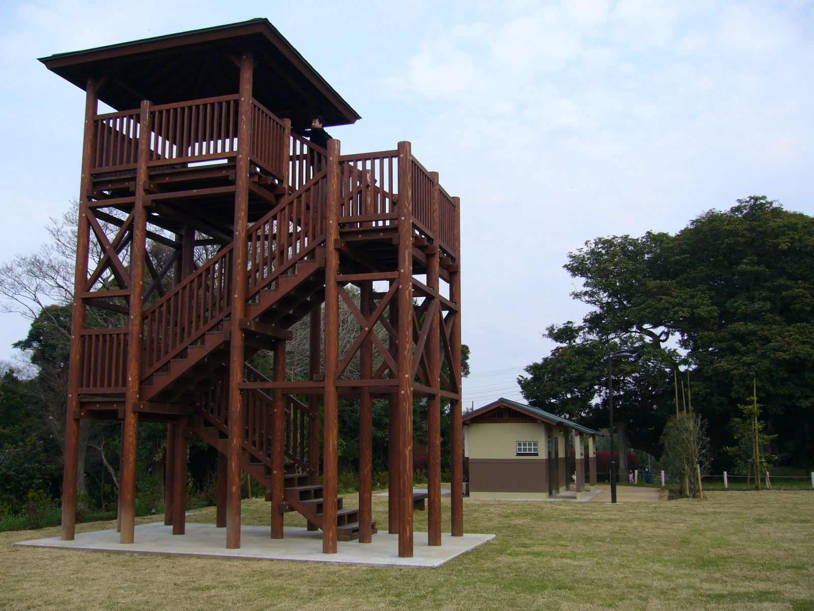 Huma Persea thunbergii (syn. Machilus thunbergii) & observation deck,katori-city,japan.JPG.JPG